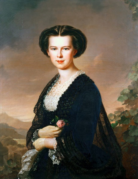 Empress Elisabeth of Austria